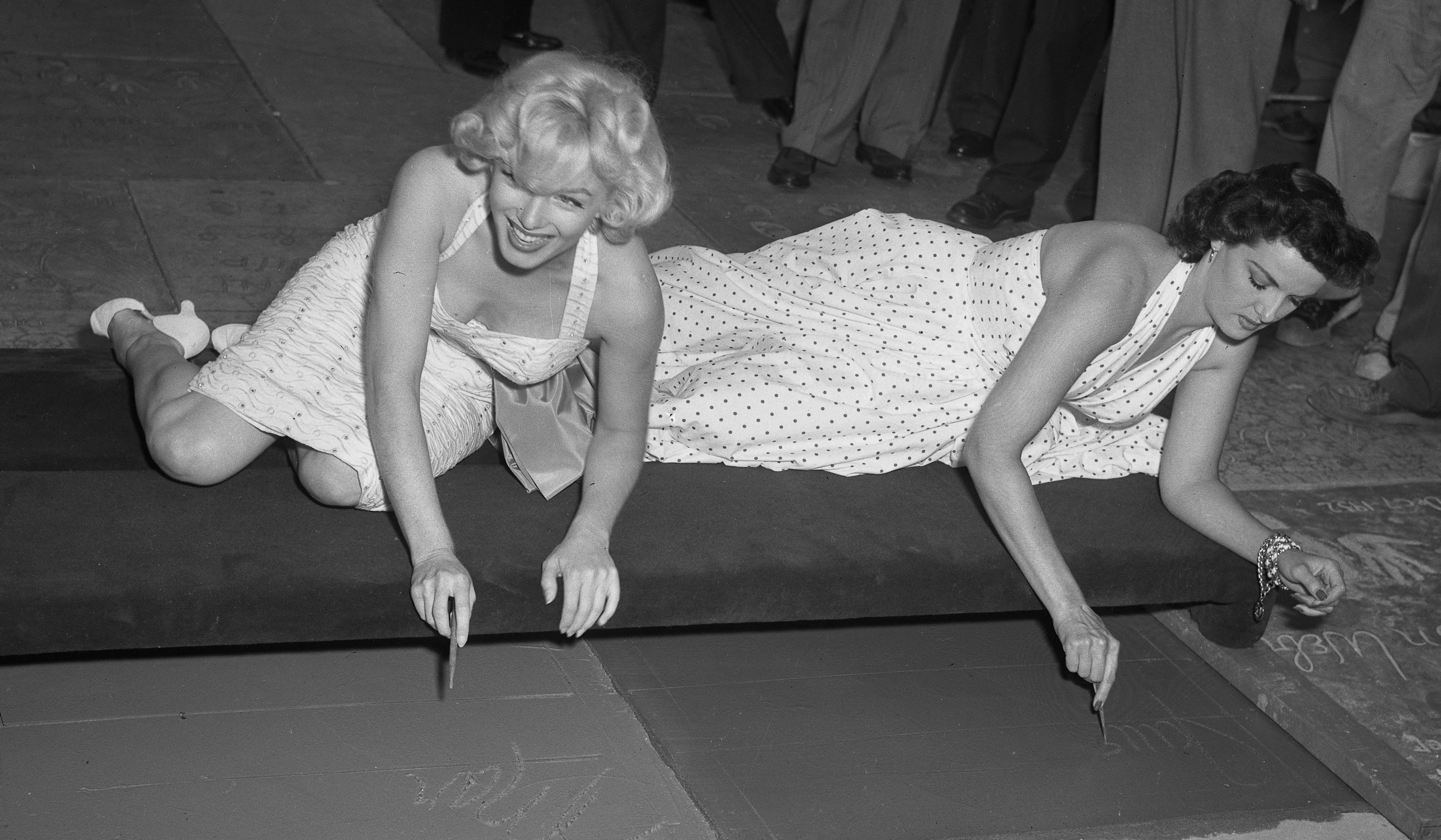 Title: Actresses Marilyn Monroe and Jane Russell putting signatures, hand and foot prints in wet concrete at Grauman's Theater, 1953 Subjects: Autographing--California--Los Angeles Chinese Theatre (Los Angeles, Calif.) Hollywood Boulevard (Los Angeles, Calif.) Hollywood Walk of Fame